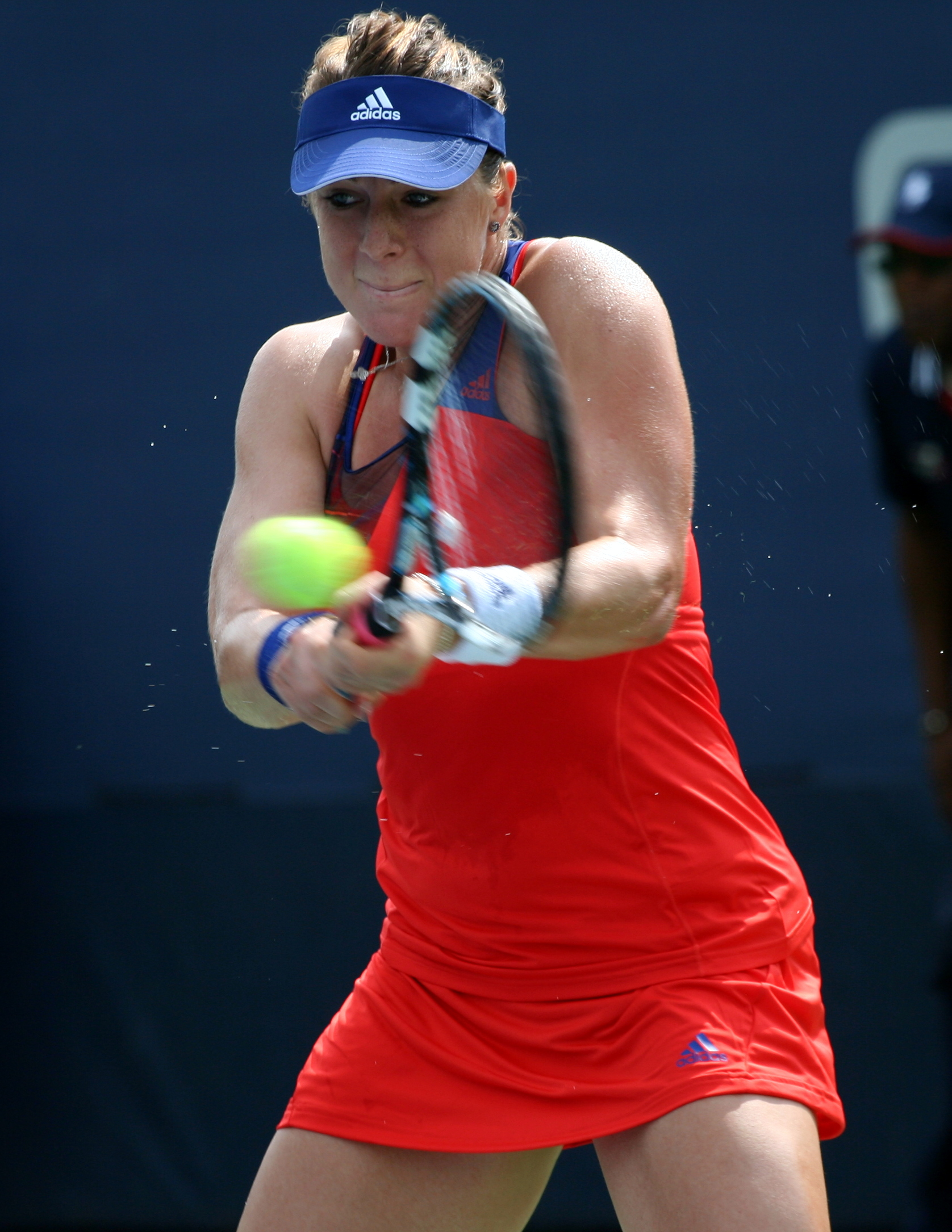 Wednesday, August 28